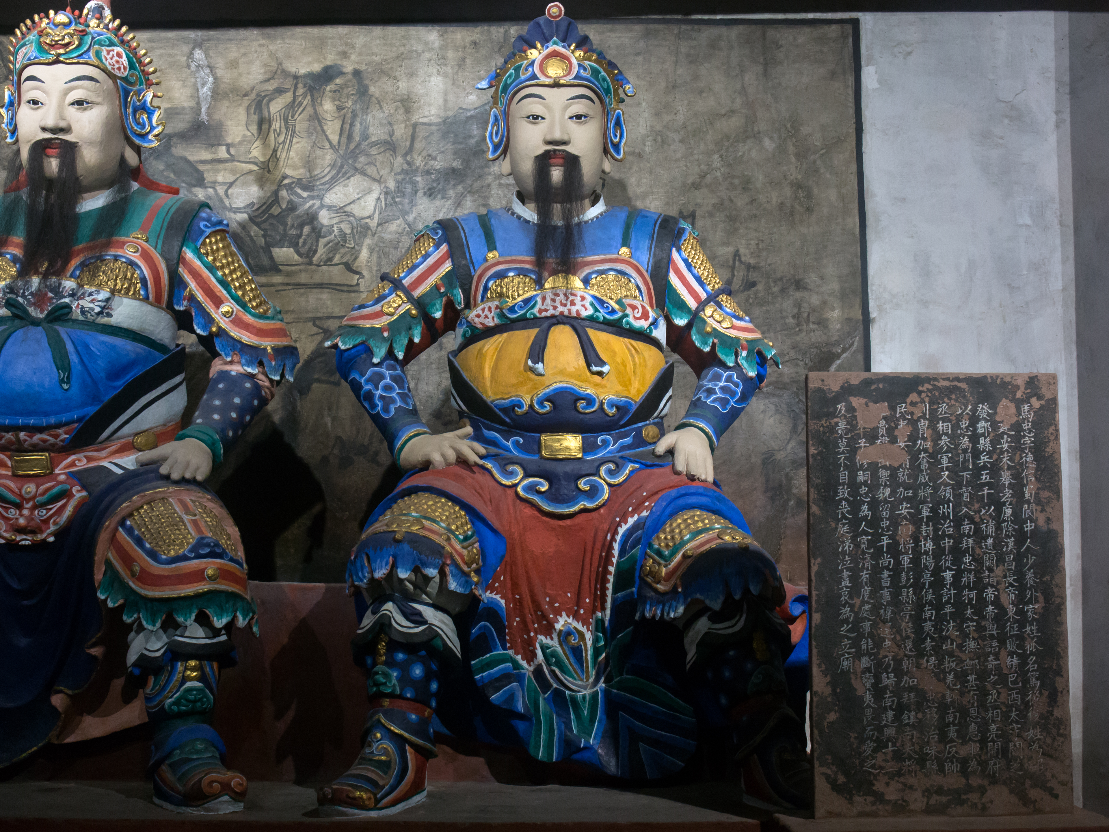 Ma Zhong (馬忠) of Shu Han